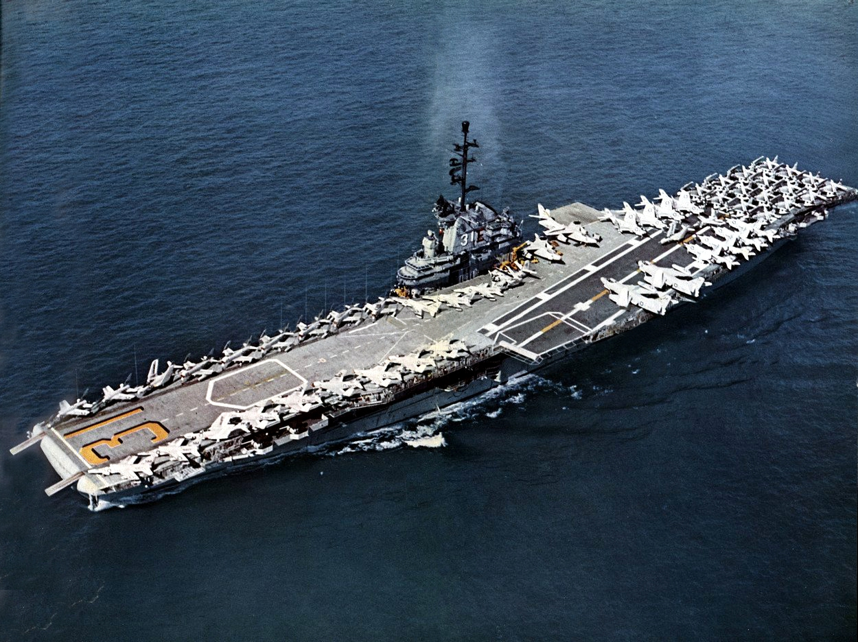 The U.S. Navy aircraft carrier USS Bon Homme Richard (CVA-31) underway. Bon Homme Richard, with assigned Carrier Air Group 19 (CVG-19), was deployed to the Western Pacific from 1 November 1958 to 19 June 1959.